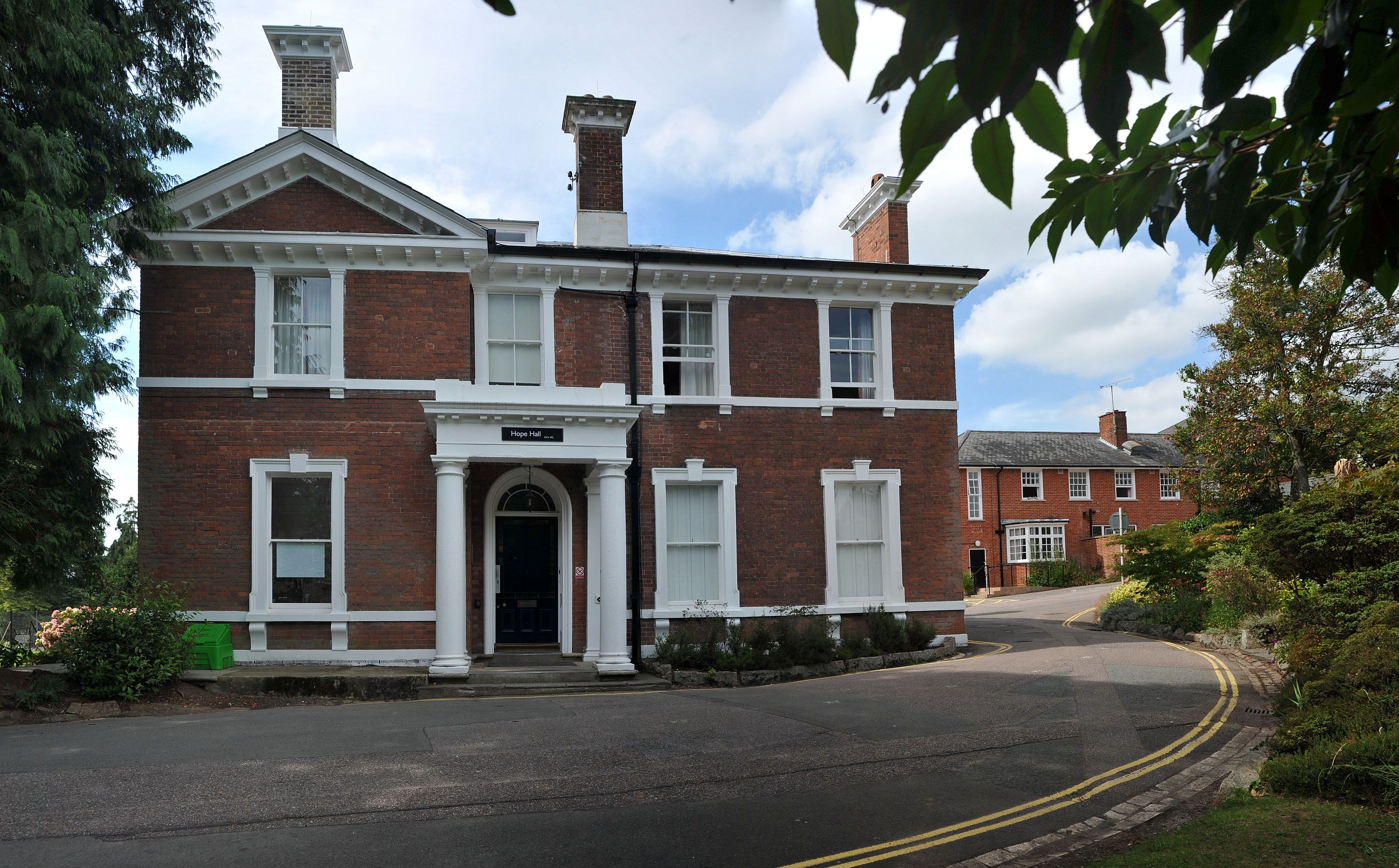 Hope Hall, one of the student halls of residence at the University of Exeter, Devon, England.